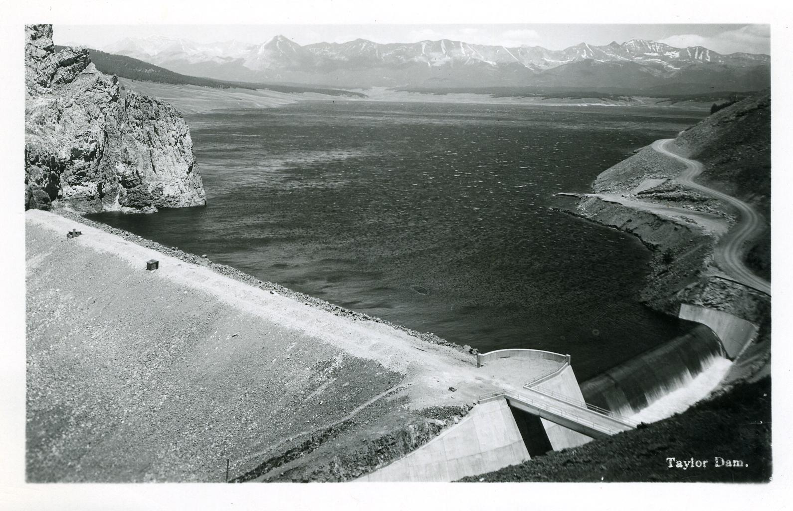 Taylor Dam